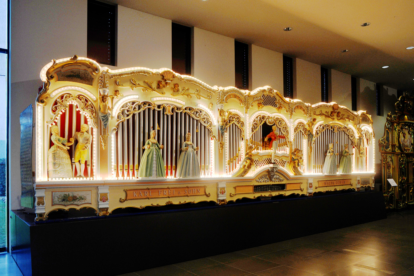 Museum of Music Automatons in Seewen; Solothurn, Switzerland. Street organ of Karl Frei & Sohn, Waldkirch in the entrance hall.[1]